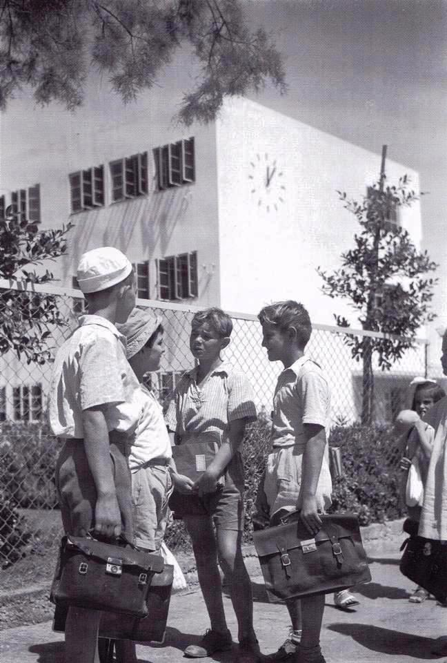 Students of the Tel Nordau School , with the "new" building of the school in the background (planned by the city ​​engineer Yaakov Ben-Sira (Shifman) )